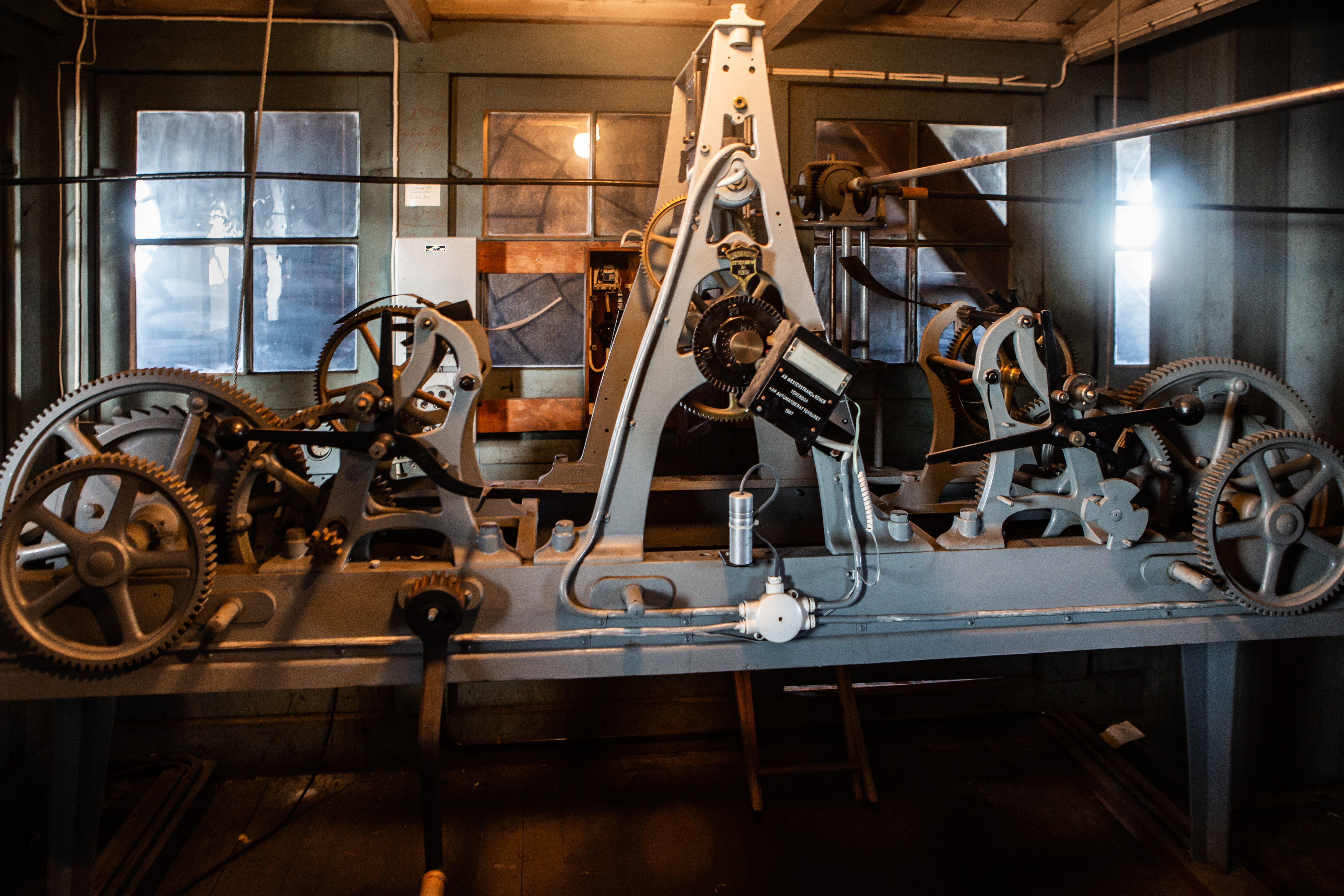 Clockwork in the Gothenburg Cathedral tower.